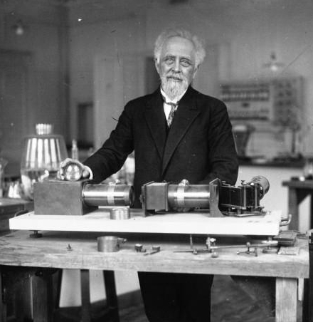 French physicist and Nobel laureate Jean Perrin (1870-1942) with his "mega-spectroscope" at the Institut Curie. in 1927.